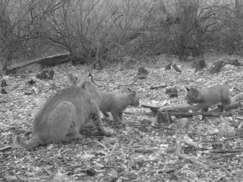 Bosque del Apache National Wildlife Refuge, NM Camera trap project by Matt Farley, Jennifer Miyashiro, and J.N. Stuart. Photo: J.N. Stuart, Creative Commons